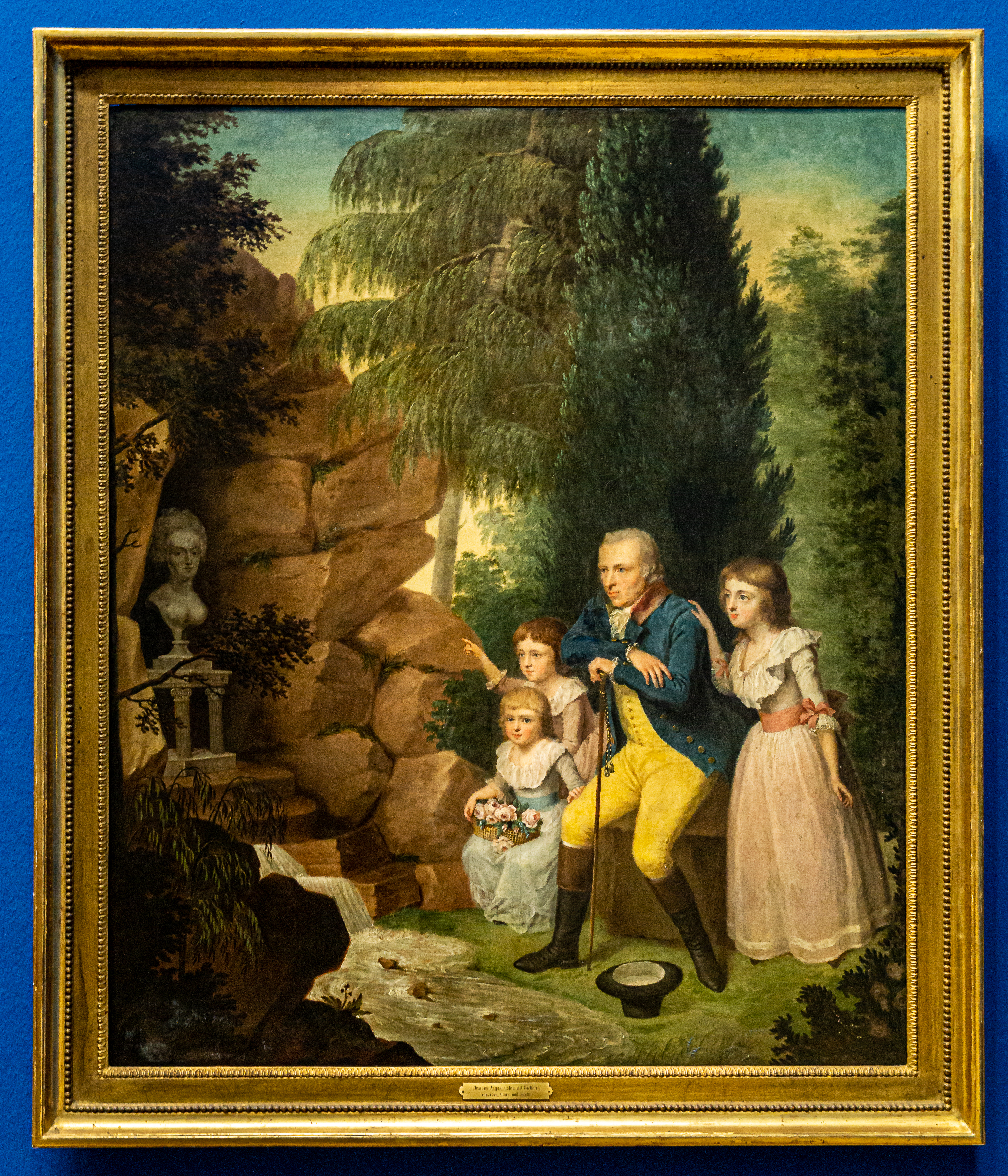 Clemens August von Galen and daughters at the bust of their mother in the park